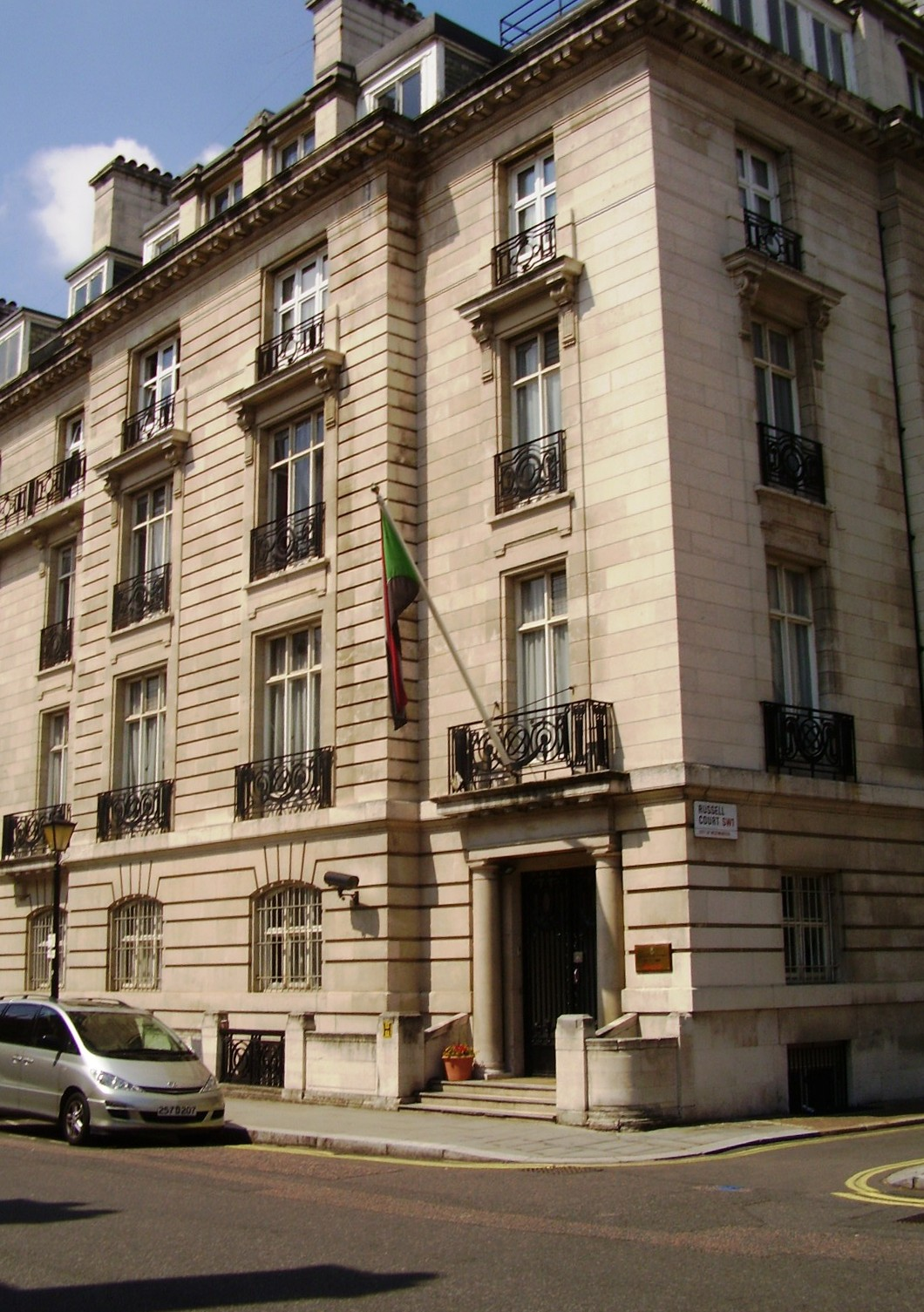 Embassy of the Republic of Sudan in London. Photo by User:Barney Jenkins